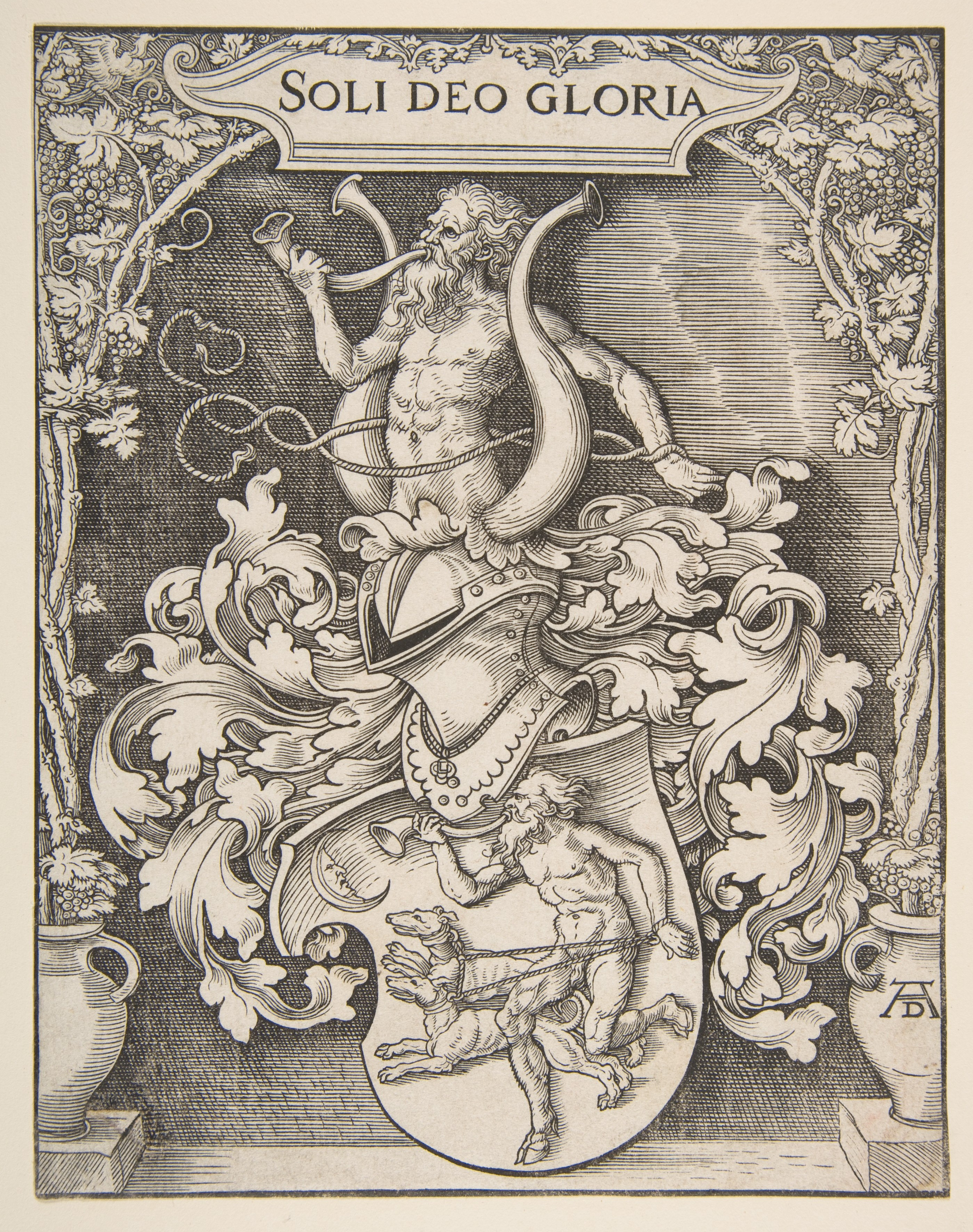 Print; Prints